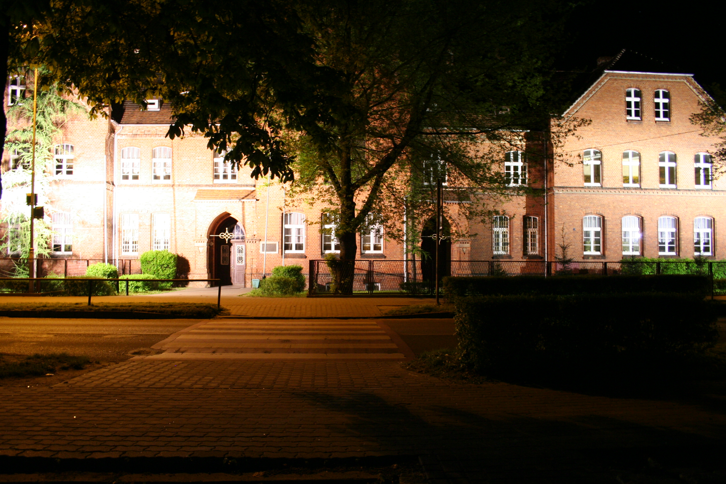 Grammar school in Międzychód